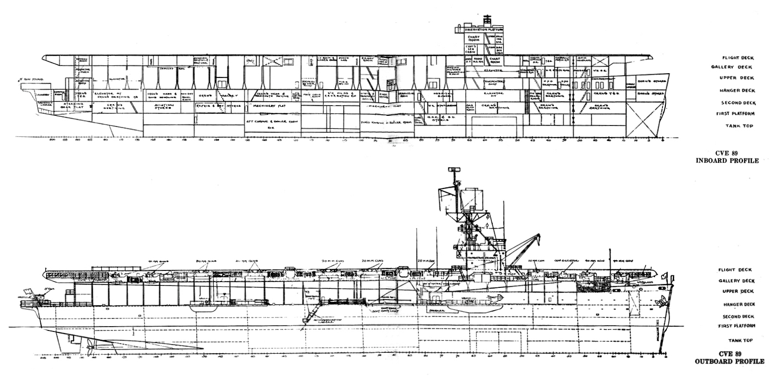 Inboard and outboard profiles of a U.S. Navy Casablanca-class escort carrier, in this case USS Takanis Bay (CVE-89).